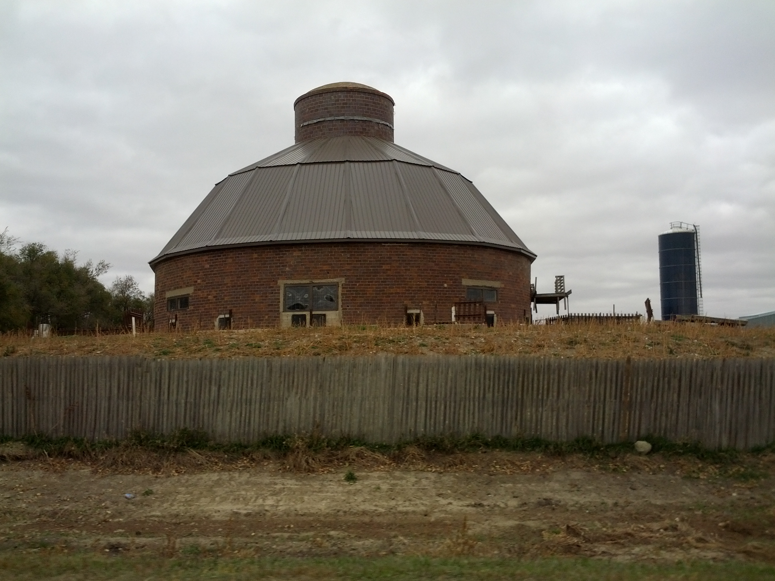 The J. Whitney Goff Round Barn located on the Ronald Hodne farm East of Winfred, SD.